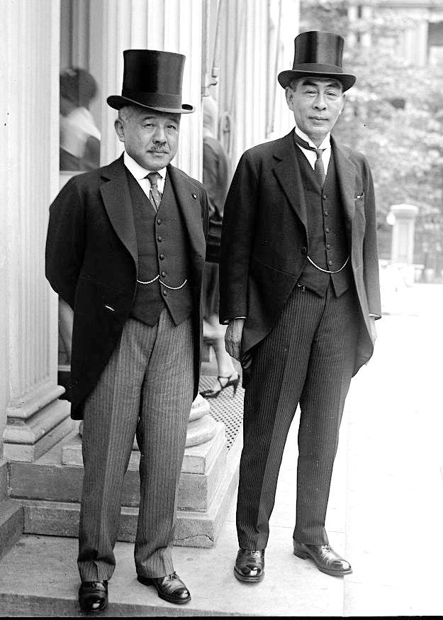 Amb. Katsuji Debuchi (on the left, 出淵勝次) and Yasuzaemon Matsunaga (松永安左エ門), 5/25/29.